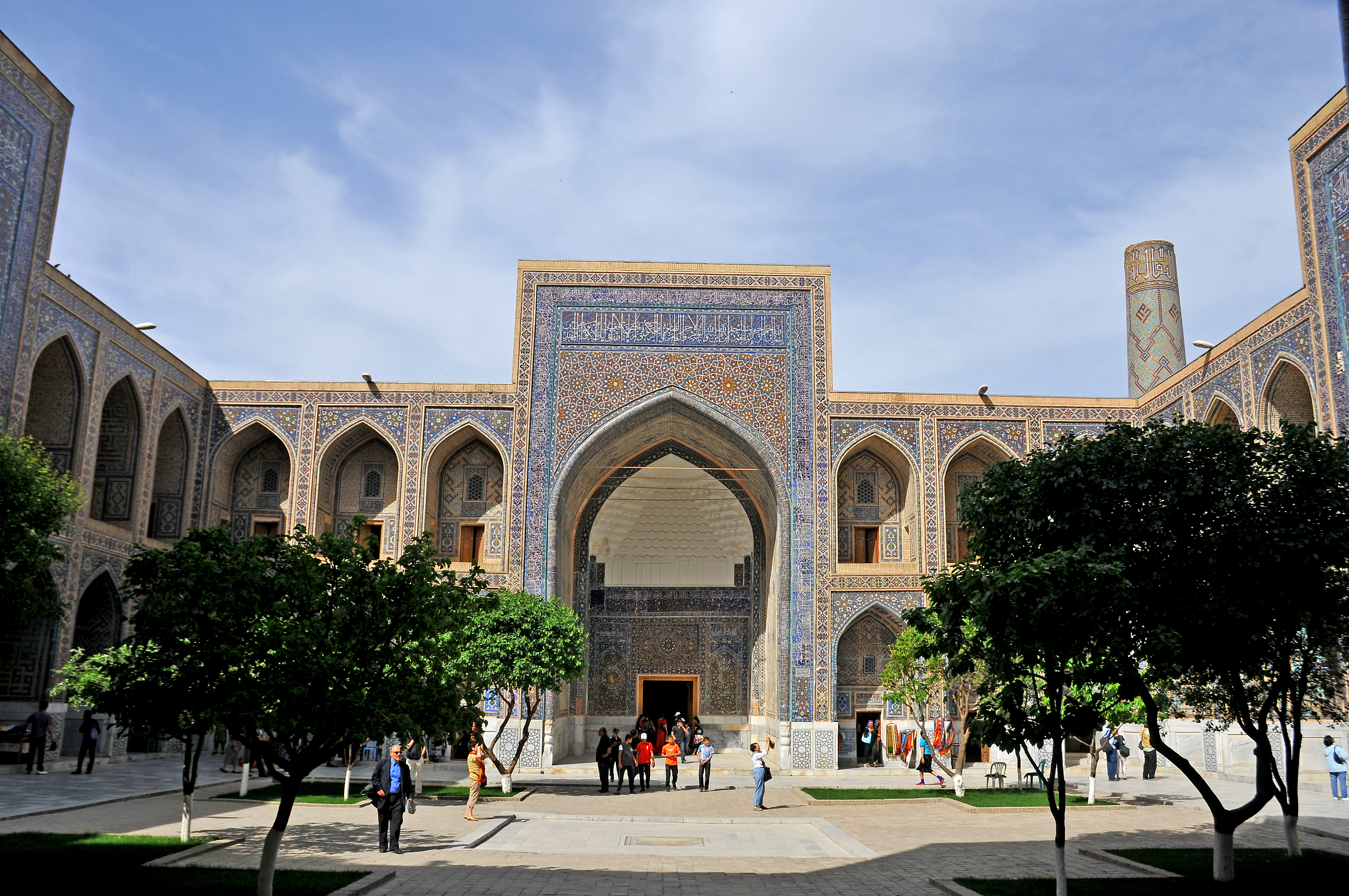 Courtyard of the Ulug'Bek Madrasa; Registan, Samarkand, Uzbekistan